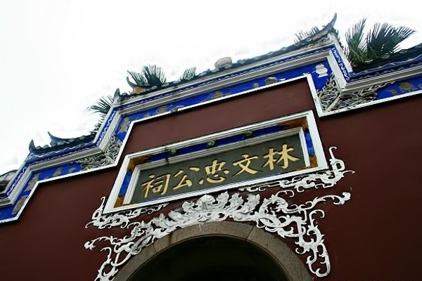 the Lin Zexu house in Fuzhou, China